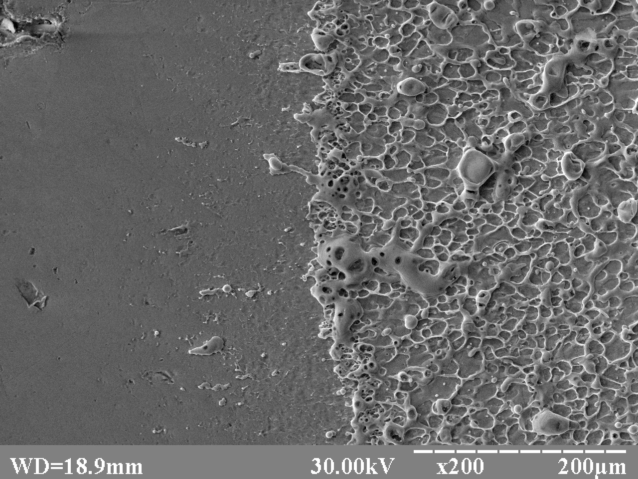 The boundary between non-treated and treated surfaces of 25Kh1M1F steel using nanosecond laser pulse